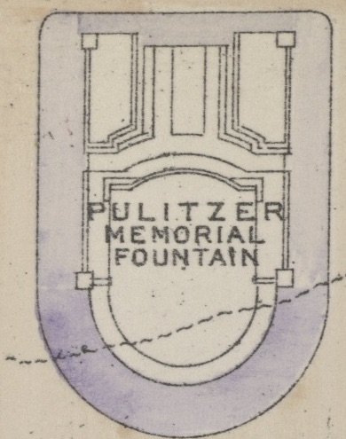 Plate 83 from: Bromley, George W. and Walter S. Atlas of the Borough of Manhattan City of New York. Desk and library edition. (New York: G. W. Bromley and Co., 1916) FOR KEY TO MAP SYMBOLS, CLICK HERE.